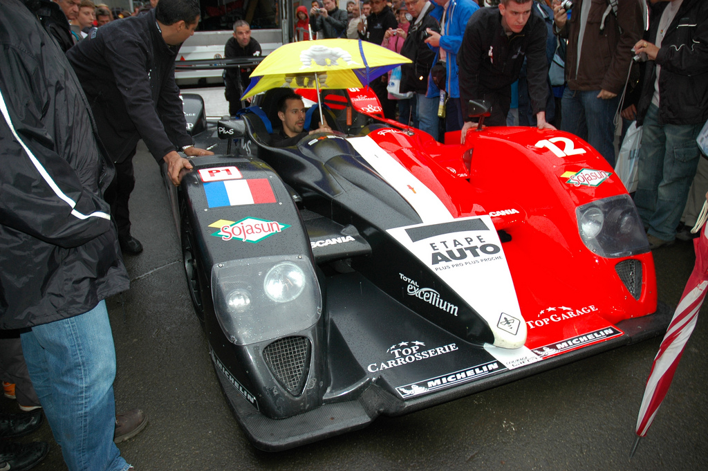 Signature Plus' Courage-Oreca LC70E-Judd at scrutineering for the 2009 24 Hours of Le Mans.